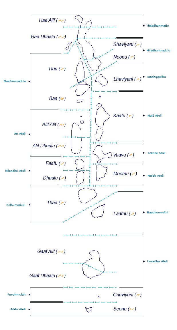 Map identifying Atolls of the Maldives. Thaana letter for each atoll is indicated inside the bracket. The combined name of some of the historical divisions are also indicated.